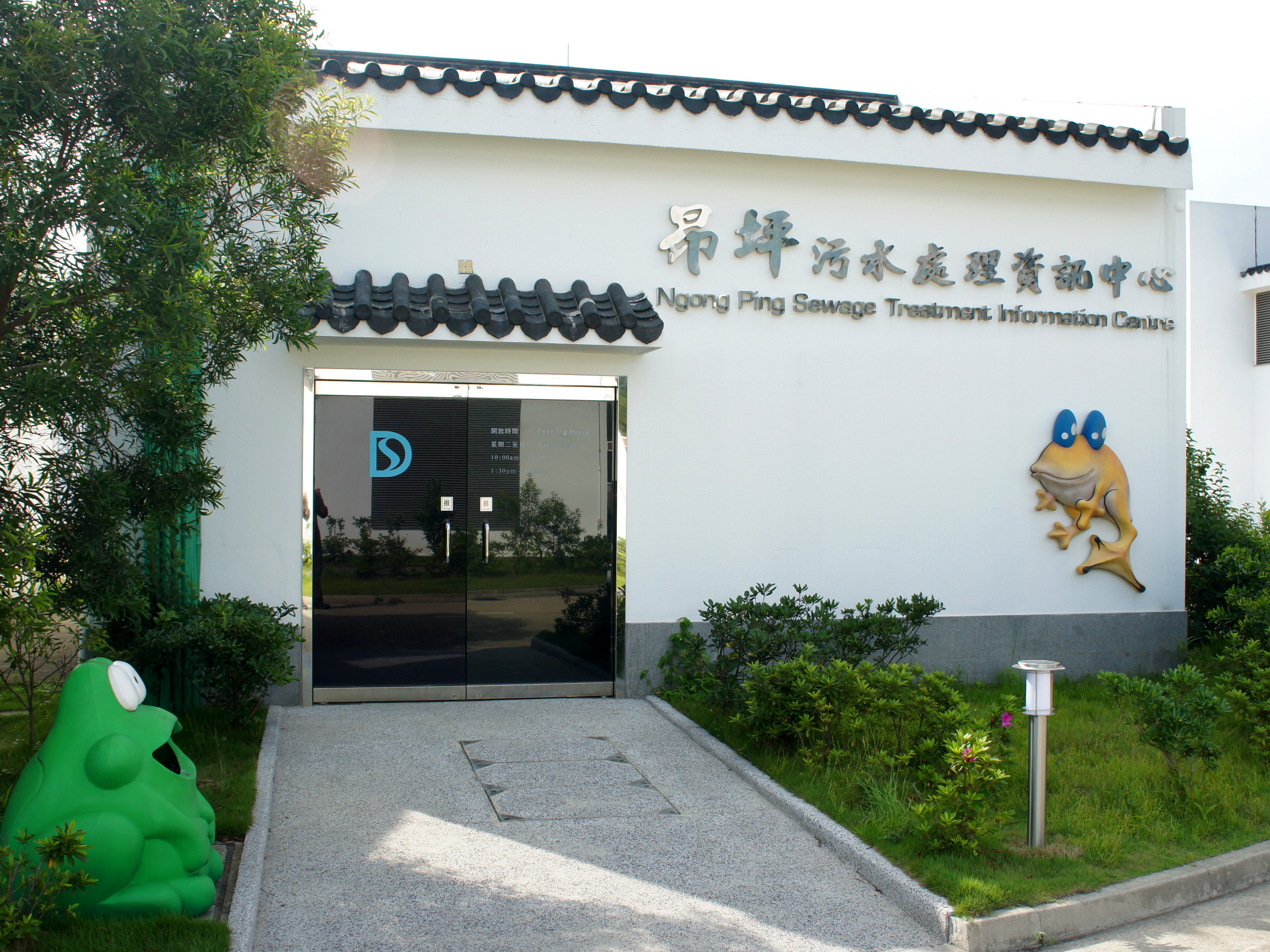 Ngong Ping Sewage Treatment Information Centre, Ngong Ping Sewage Treatment Works, Ngong Ping, Lantau Island, Hong Kong.